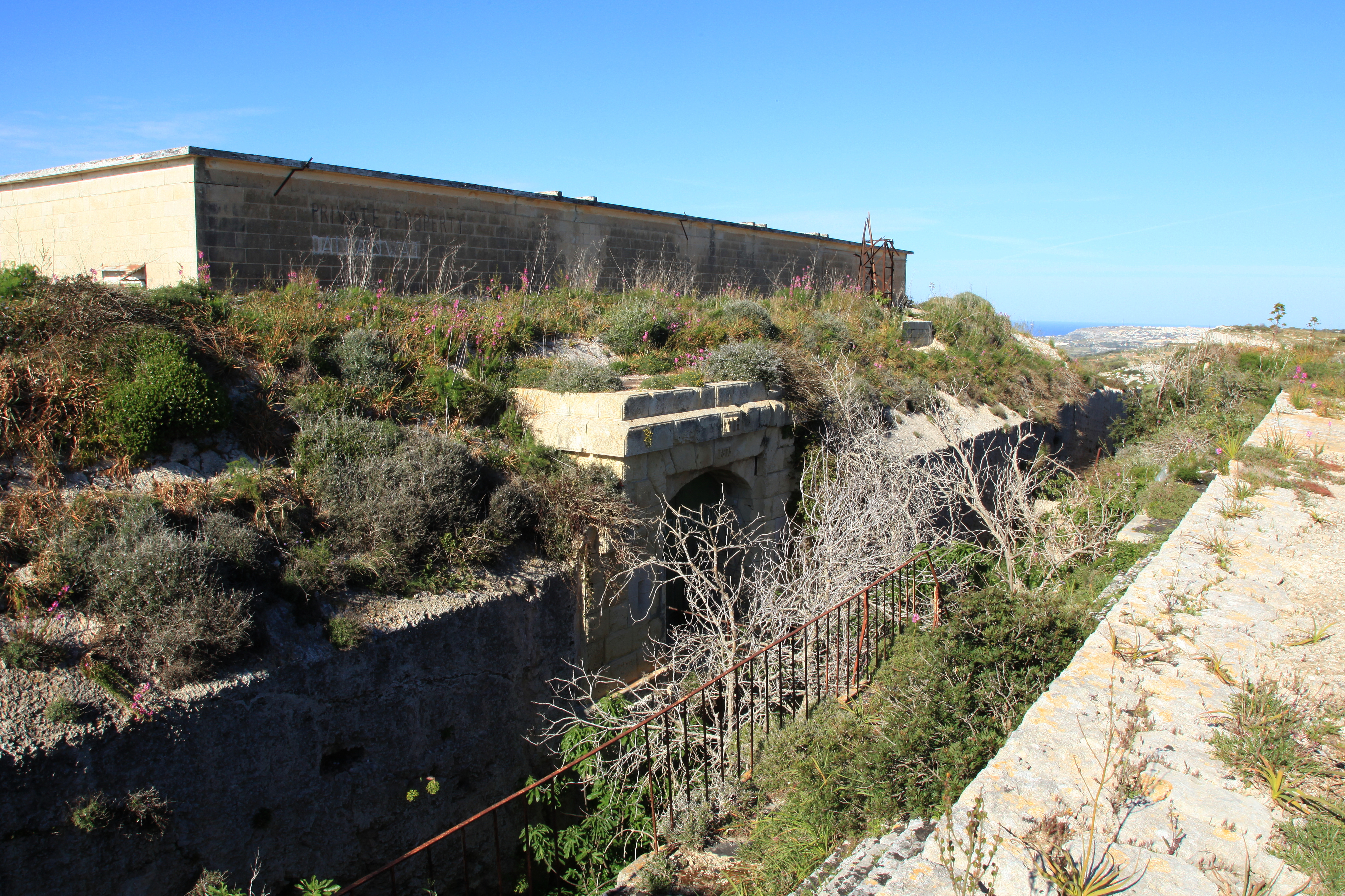 Fort Bingemma in Rabat (Malta)